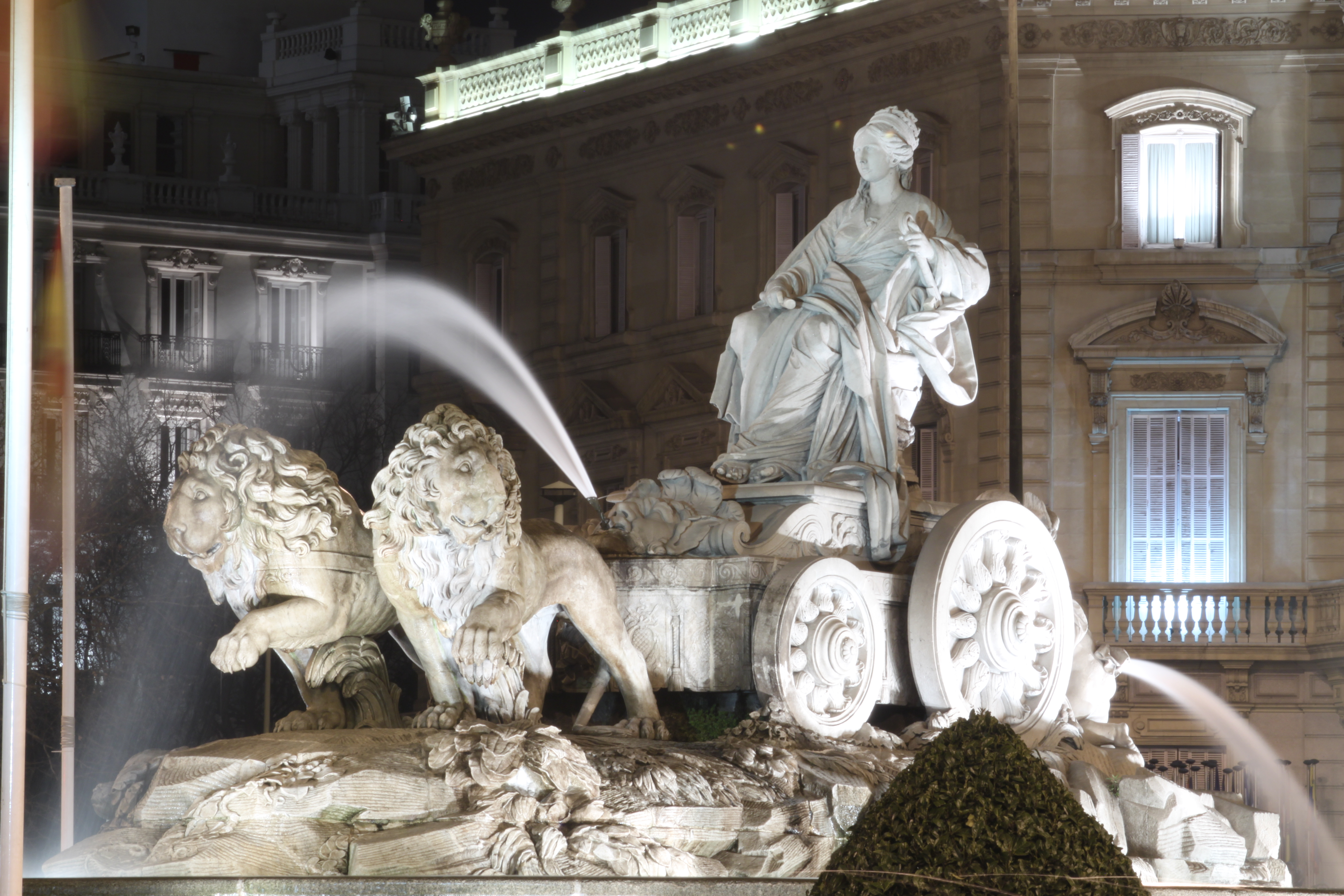 Night view of Fountain of Cybele in Madrid (Spain).